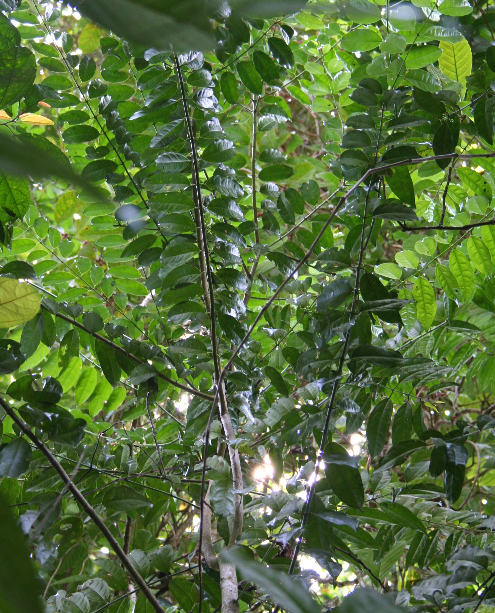 General appearance of a plant of Haptanthus hazlettii when it was rediscovered in Honduras in 2010.